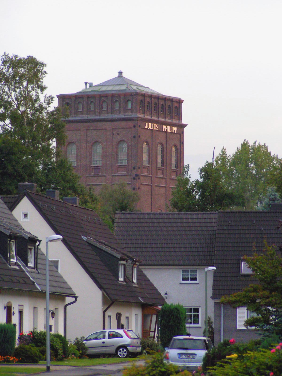 Siedlung in Wiemelhausen mit Malakowturm "Julius Phillip", dem Medizinhistorischen Museum der Ruhr-Universität A street szene with a old coal mining tower. Inside is the medical-histroic Museum of the University Date: Sept 2004, Bochum, Germany Author: Maschinenjunge Licence: see below.